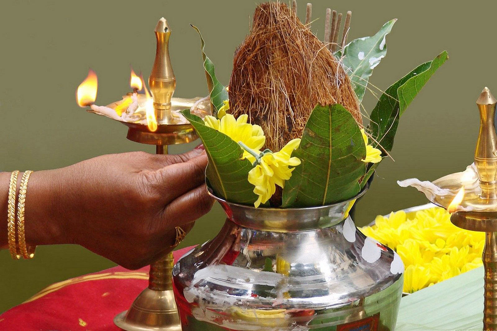 Sinhala and Tamil new year in Sri Lanka